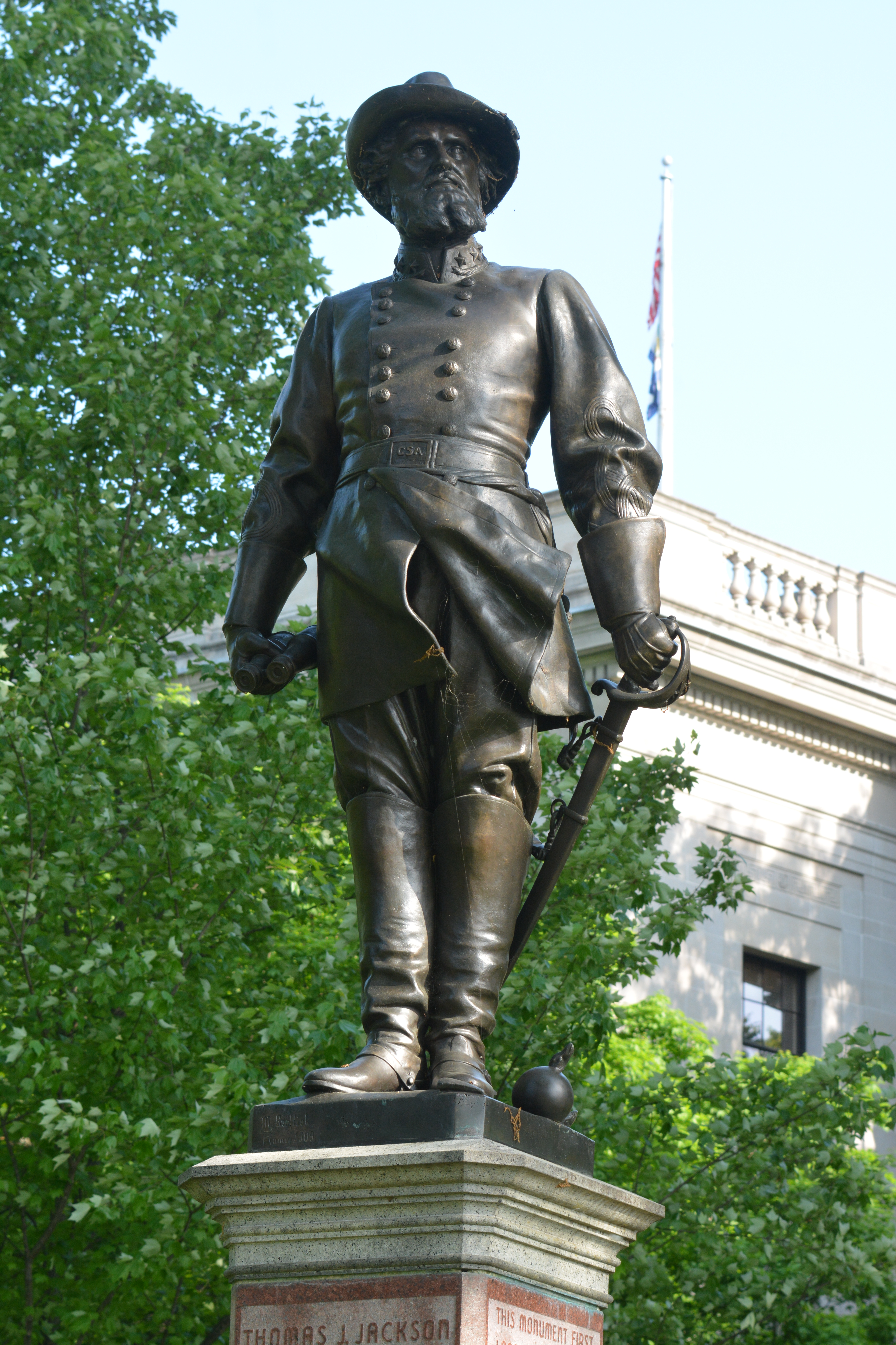 West Virginia State Capitol, Charleston, West Virginia, U.S. Stonewall Jackson statue by Moses Jacob Ezekiel, 1910.